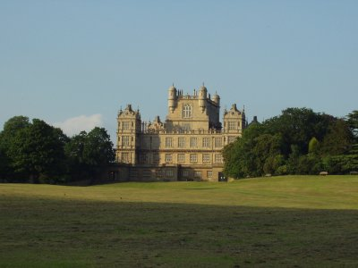 Wollaton Hall, Nottingham, photograph taken by uploader Summer 2005